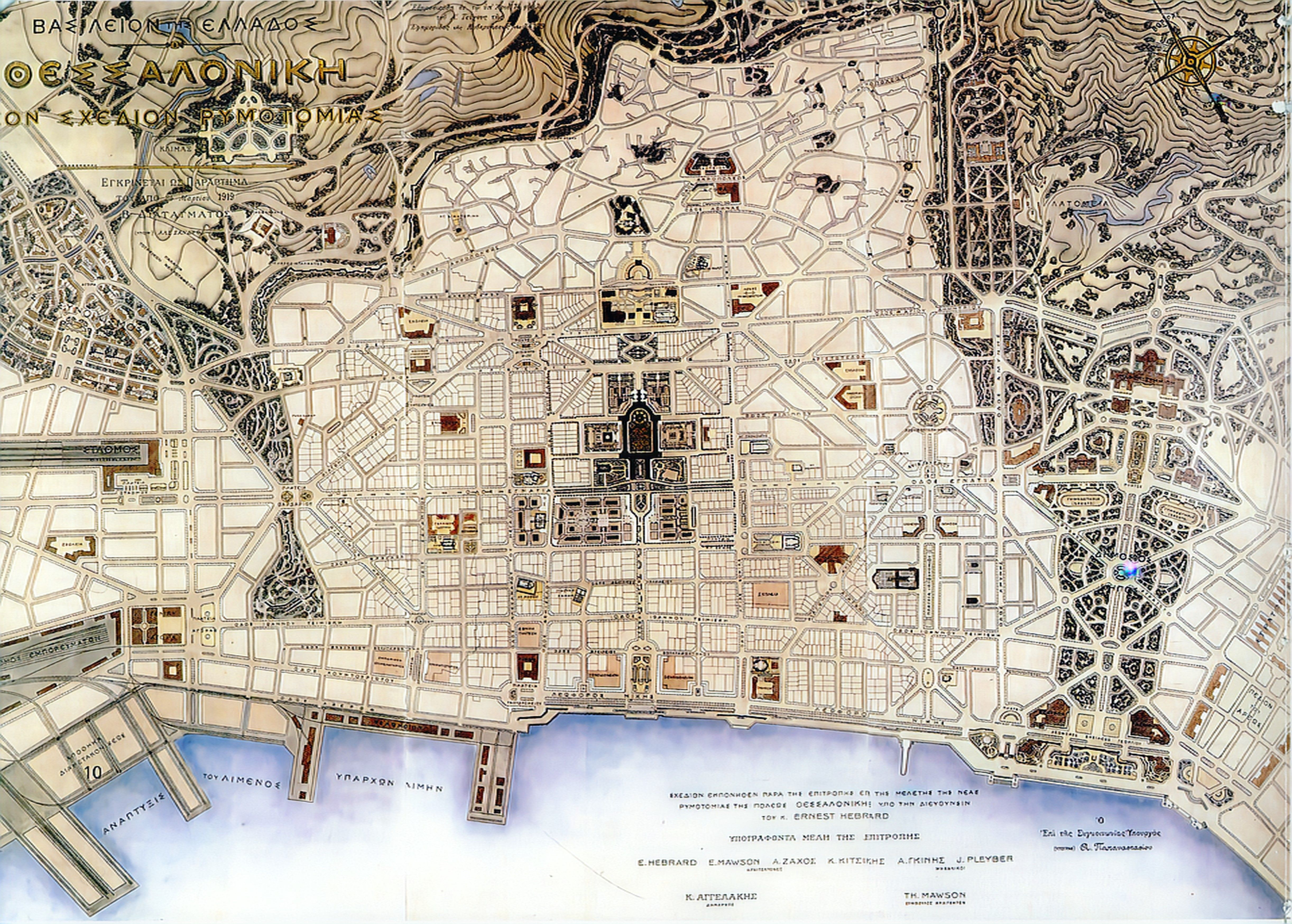 Map of Thessaloniki by Ernest Hébrard in 1917.